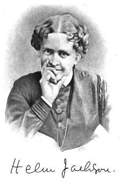 Photographic image of American writer Helen Hunt Jackson (1830-1885). From the frontispiece to Poems. Boston: Little, Brown, and Company, 1904.